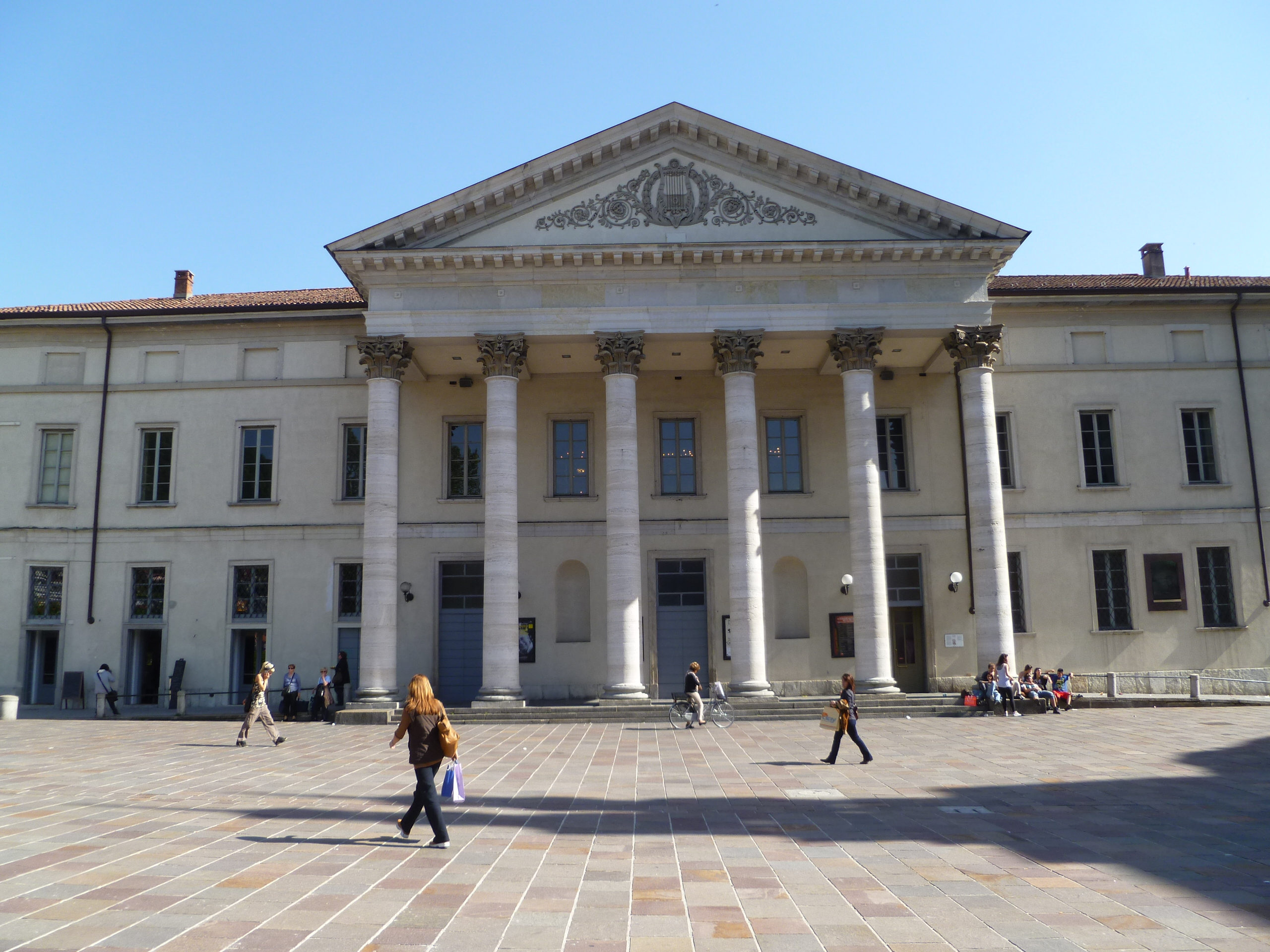 Teatro sociale, Como, Italy